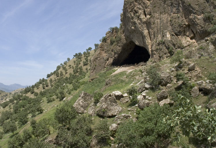 View of the exterior of Shanidar Cave, taken during the summer of 2005. Note for scale the two crouching men in front of the cave. At the time this photo was taken, the interior of the cave was being used as a pen by a local shepherd. Licensing